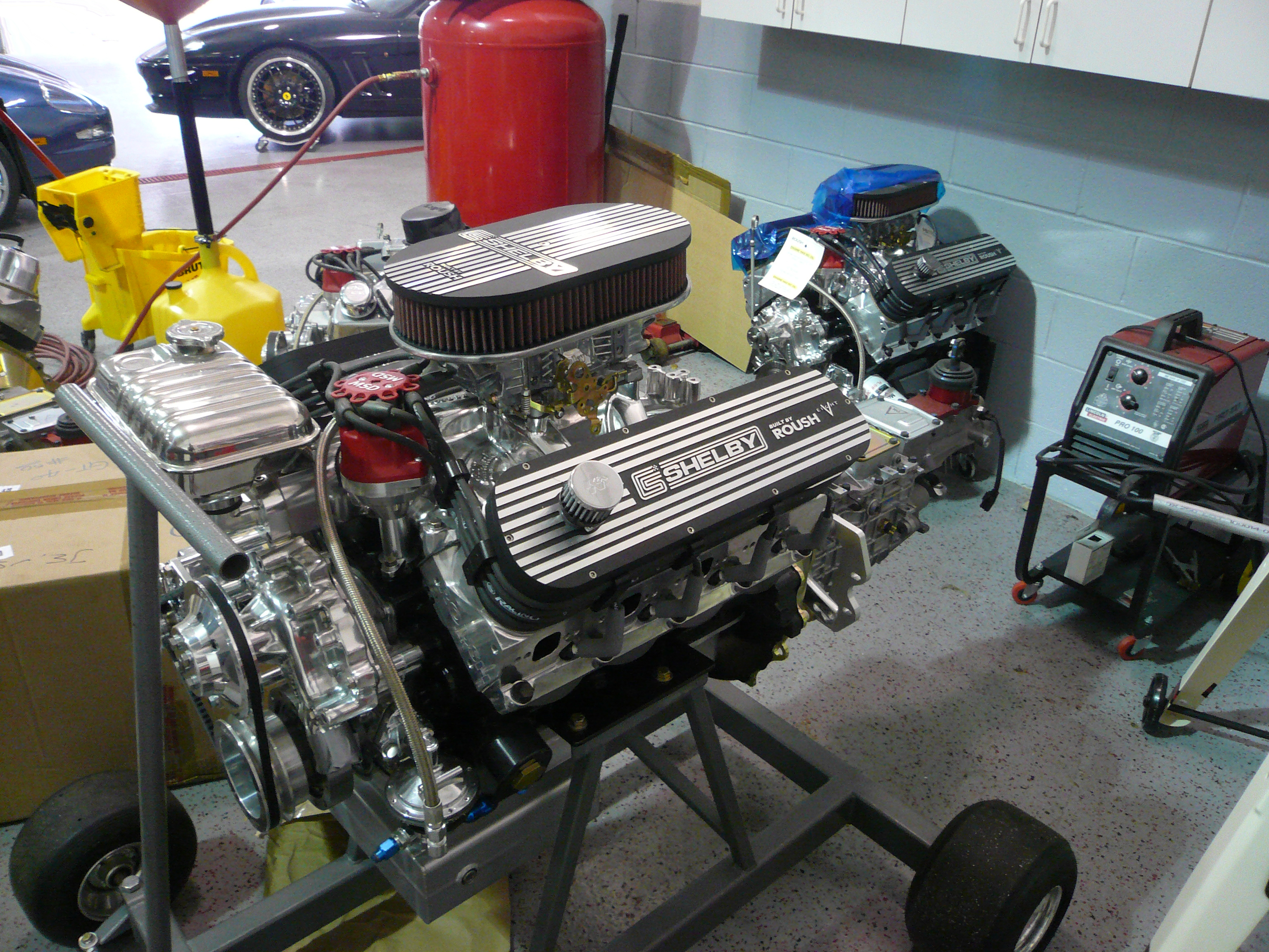 Photograph of a Roush 402 cubic inch engine built for the Shelby Daytona Coupe (chassis #0121).